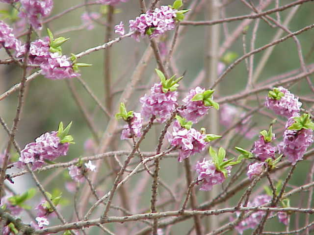 Species: Daphne mezereum Family: Thymelaeaceae Image No. 1